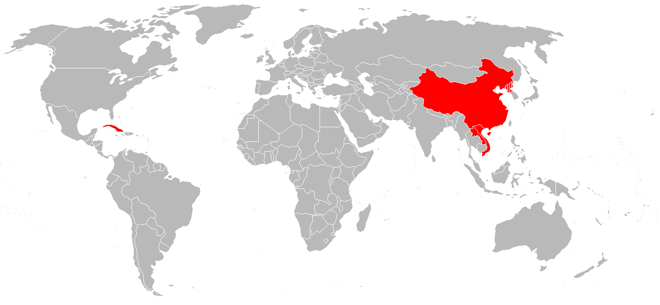 Present day Marxist-Leninist states